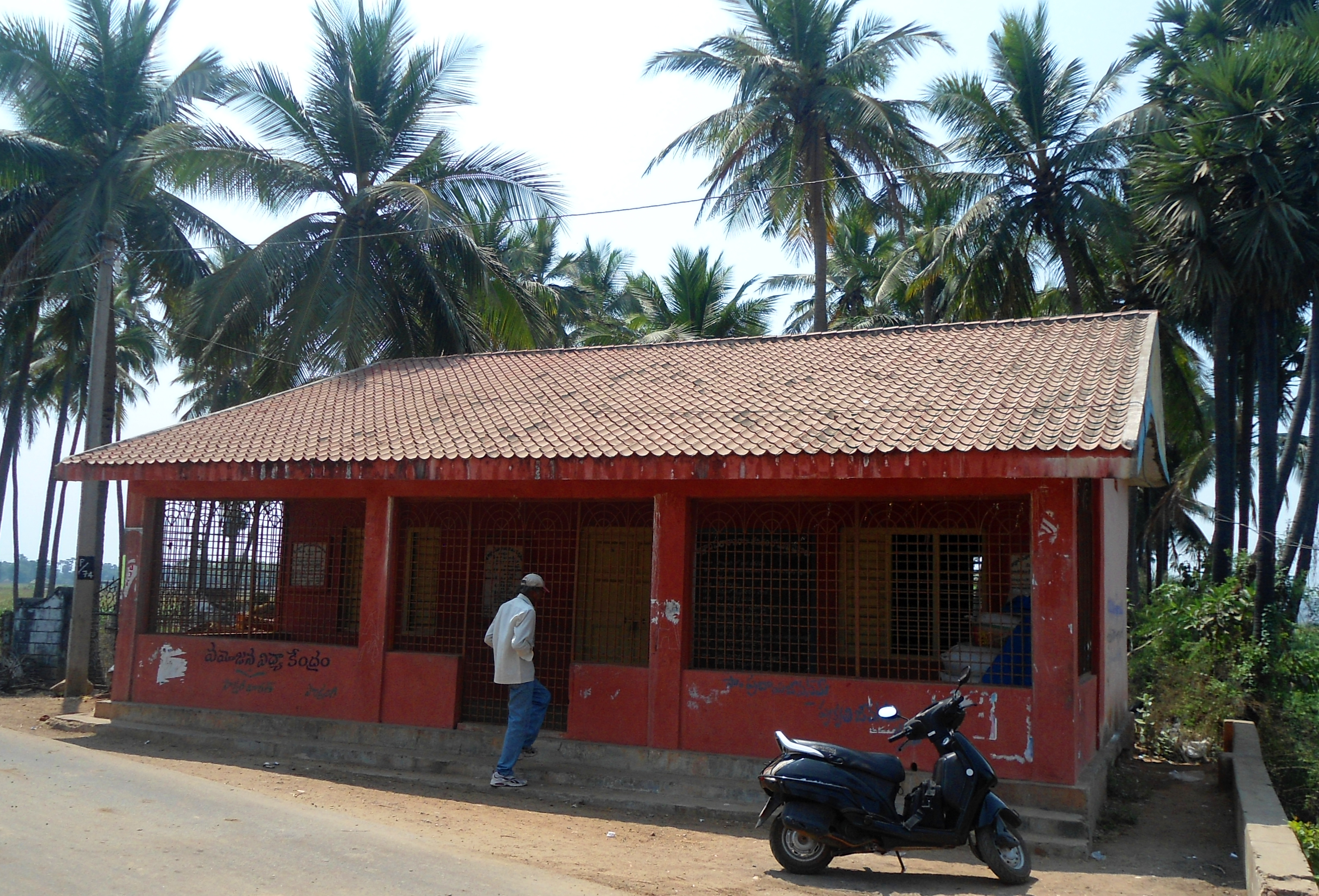 The House where freedom fighter Sri Alluri Seeta Rama Raju was born in Pandrangi, Visakhapatnam district